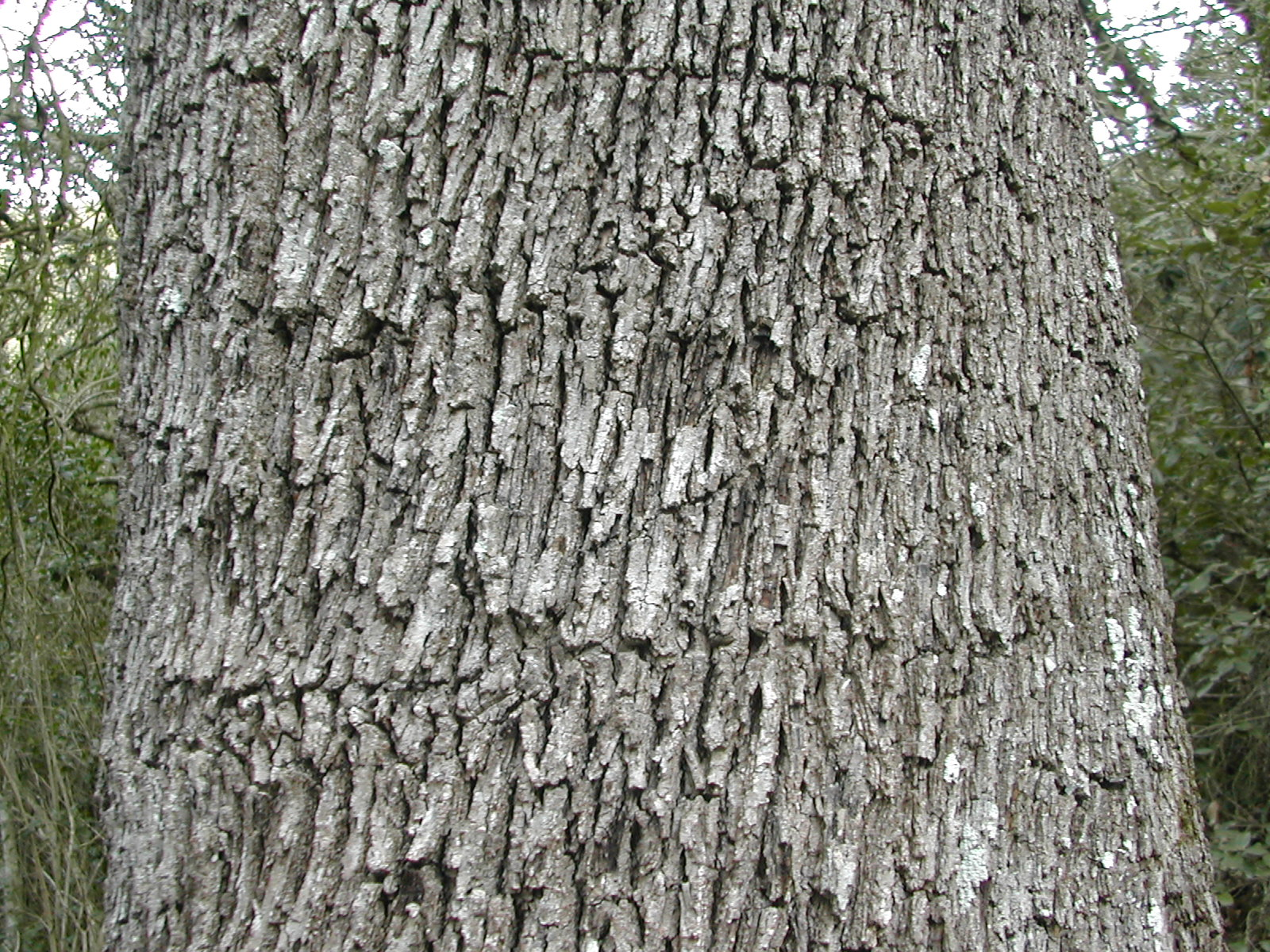 Quercus ilex - bark Author: David Gaya